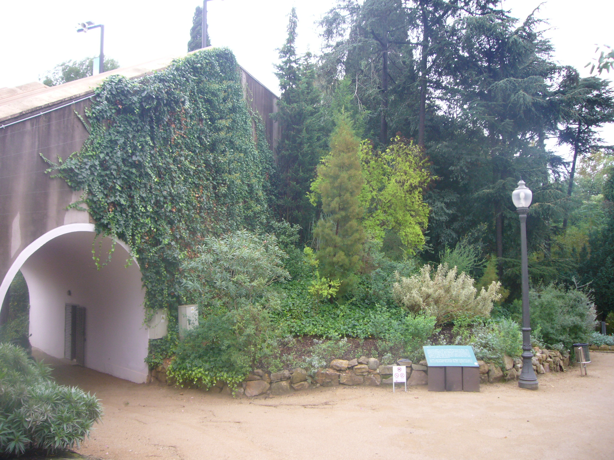 Historic Botanic Garden of Barcelona. At the left we see the escalators which pass above it.